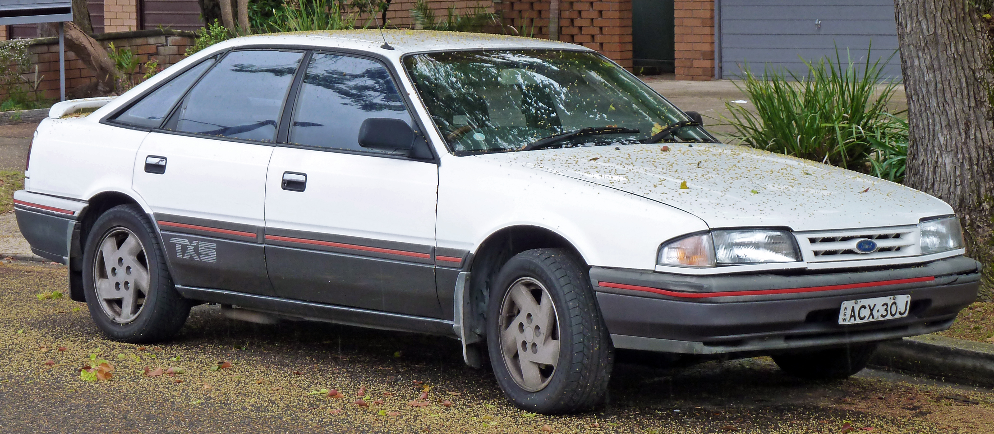 1989 Ford Telstar TX5 (AT) Turbo hatchback. Photographed in Dolls Point, New South Wales, Australia.